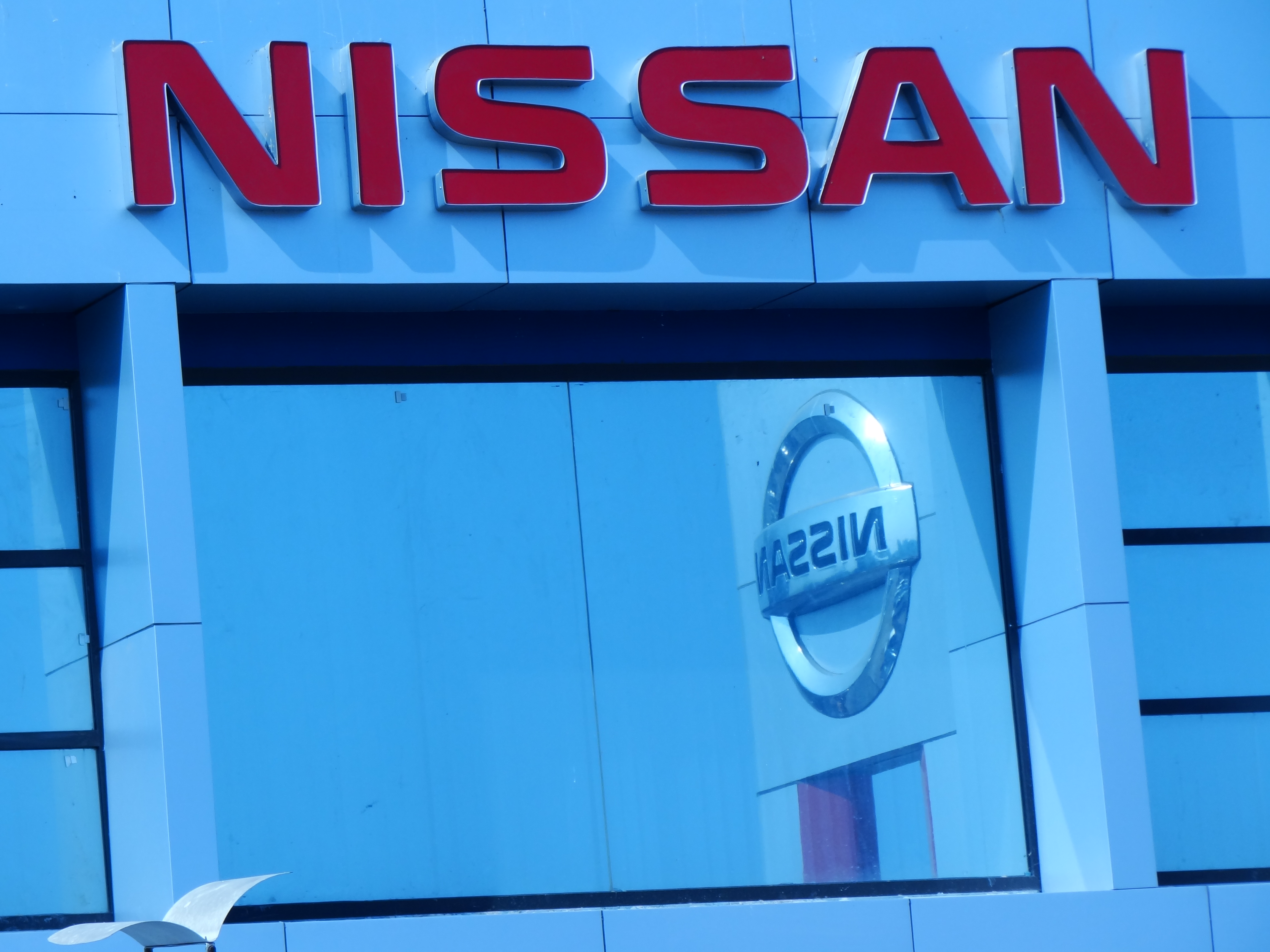 The Logo of the company.